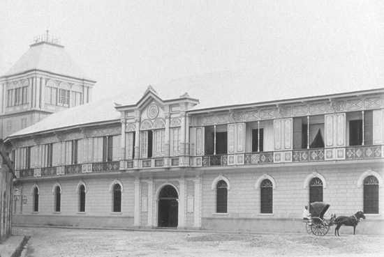 Colegio San Juan de Letran, Manila (ca. 1880). Established in 1620, is the oldest college in the Philippines and the oldest secondary institution in Asia